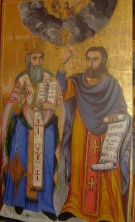 Icon of Saint Cyril and Methodius in eponymous church in the Hospices of Lesok Monastery